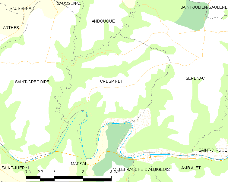 Map of French municipality Crespinet